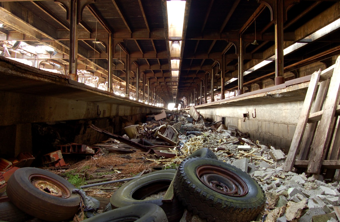 Interior of the Railway Express Building at Buffalo Central Terminal in Buffalo, New York.